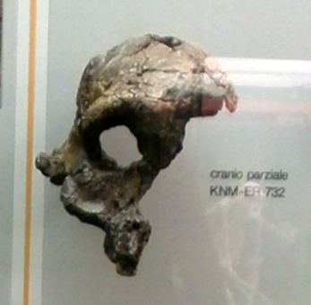 KNM-ER 732